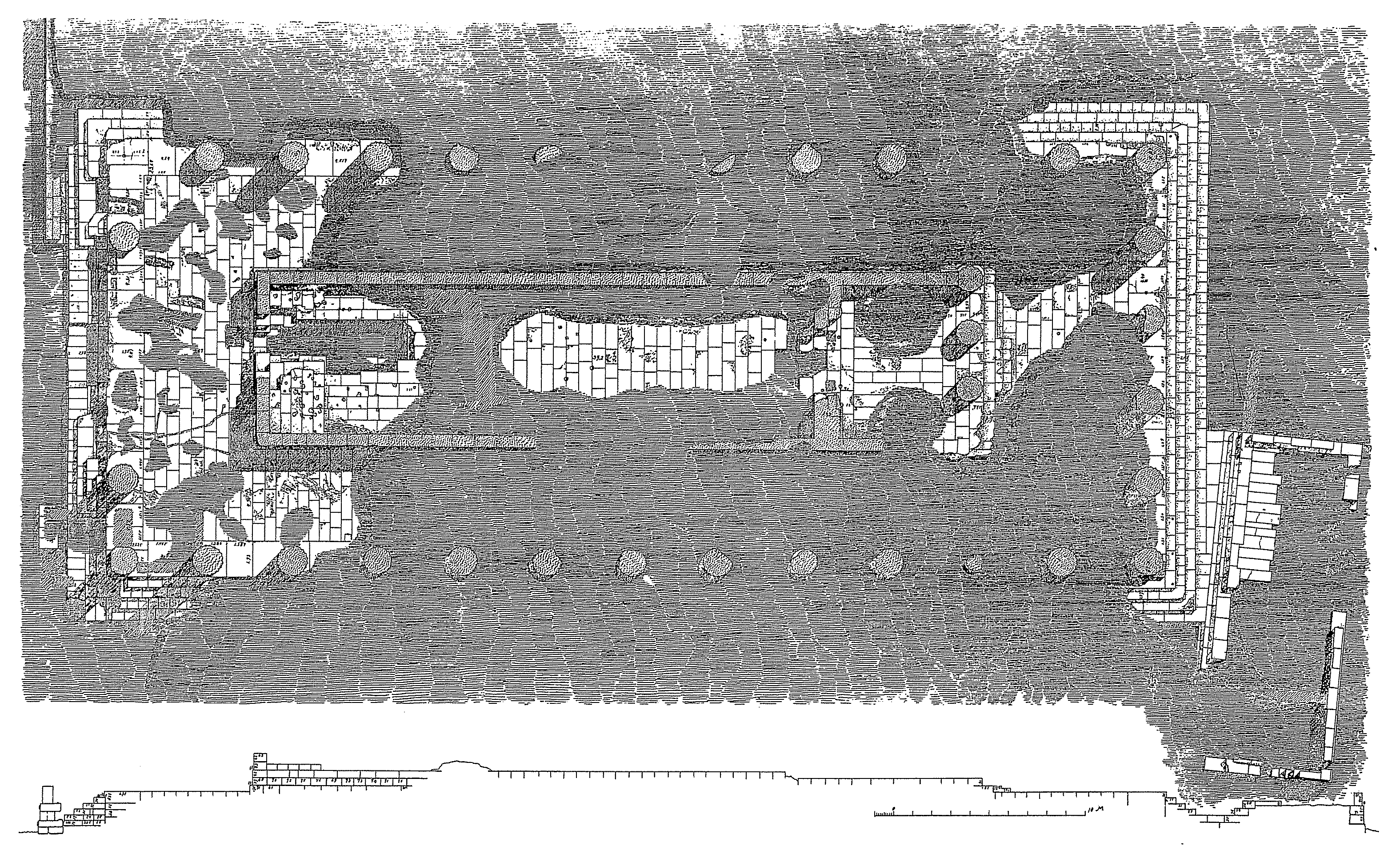 Temple D in Selinunte.